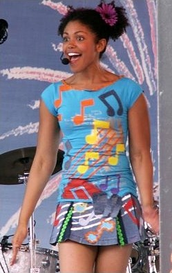 Karla Cheatham Mosley